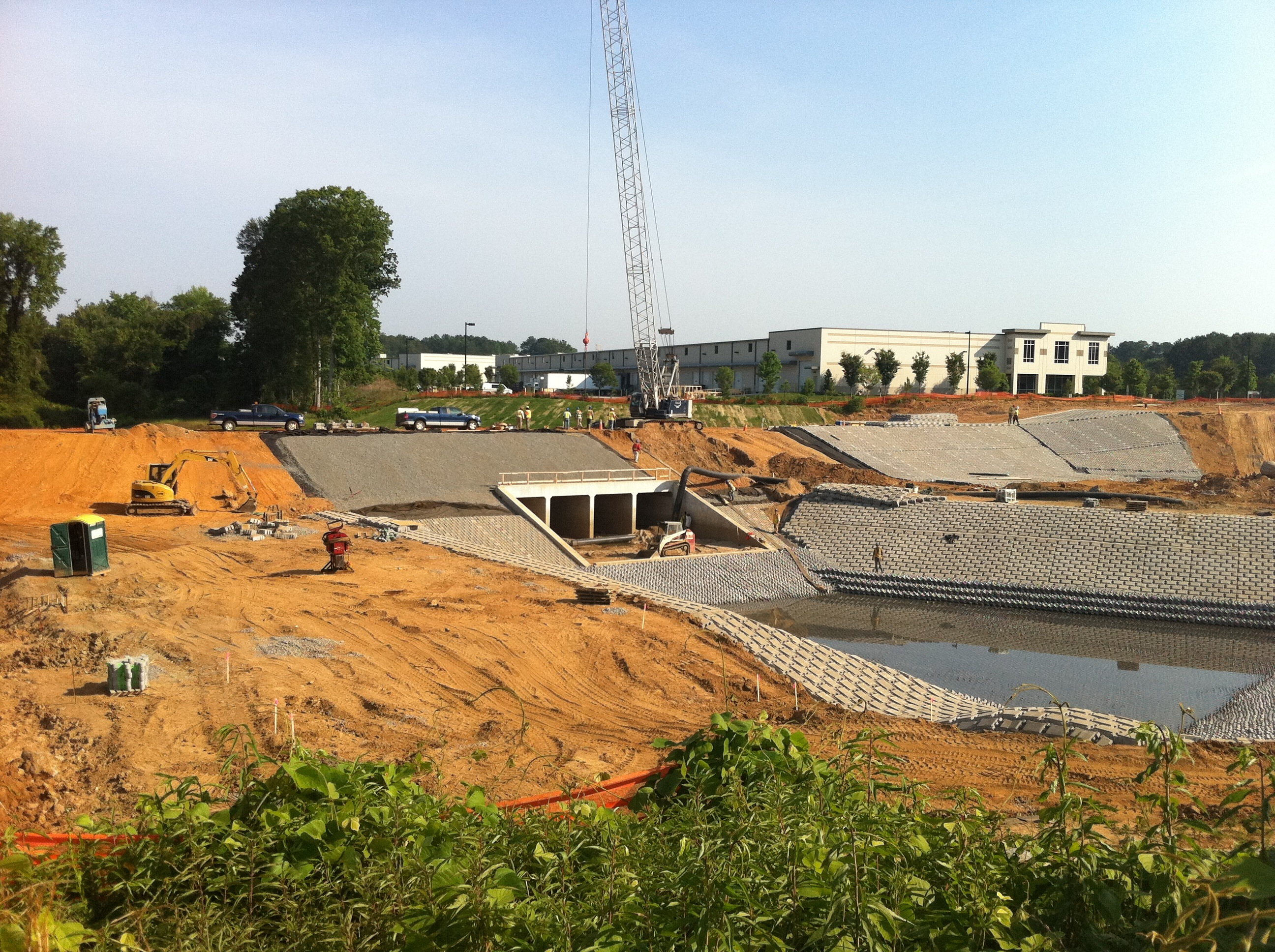 A view of the Noonday Creek flood control dam at Chastain Meadows Parkway